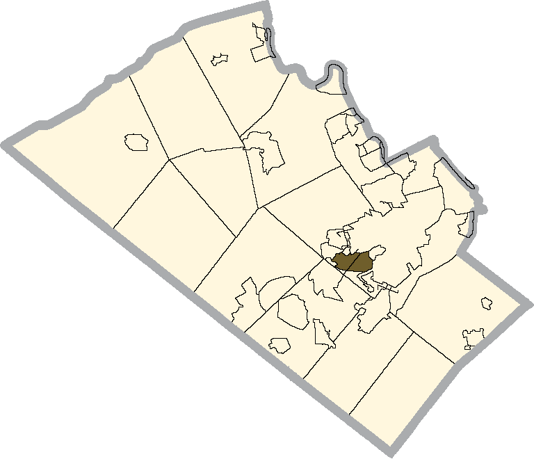 Dorneyville shaded on the map of Lehigh county.